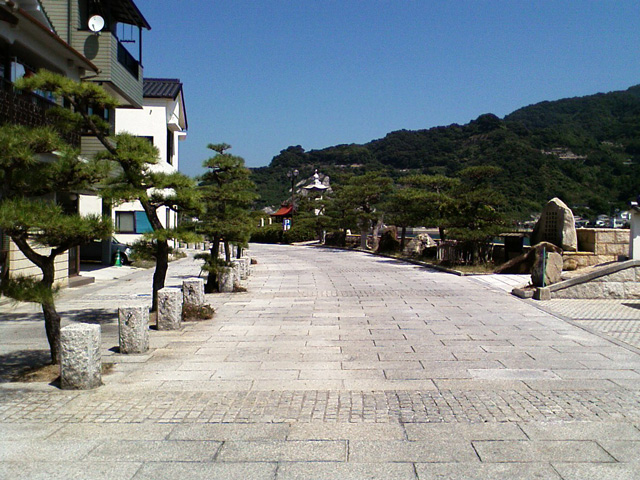 Pref Route 74, Hiroshima, Japan